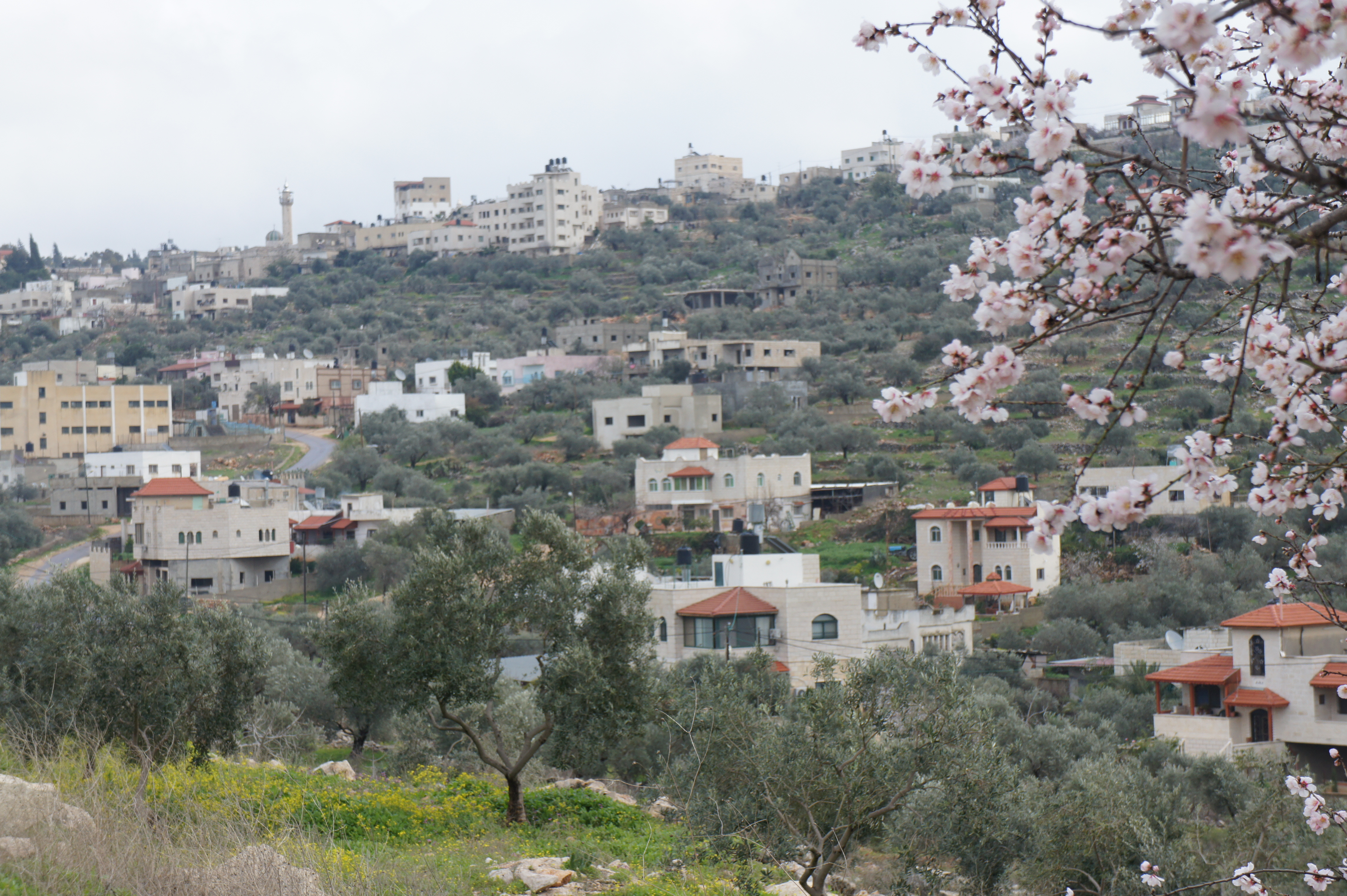 Kufr ad-Deek, Palestine, February, 2012